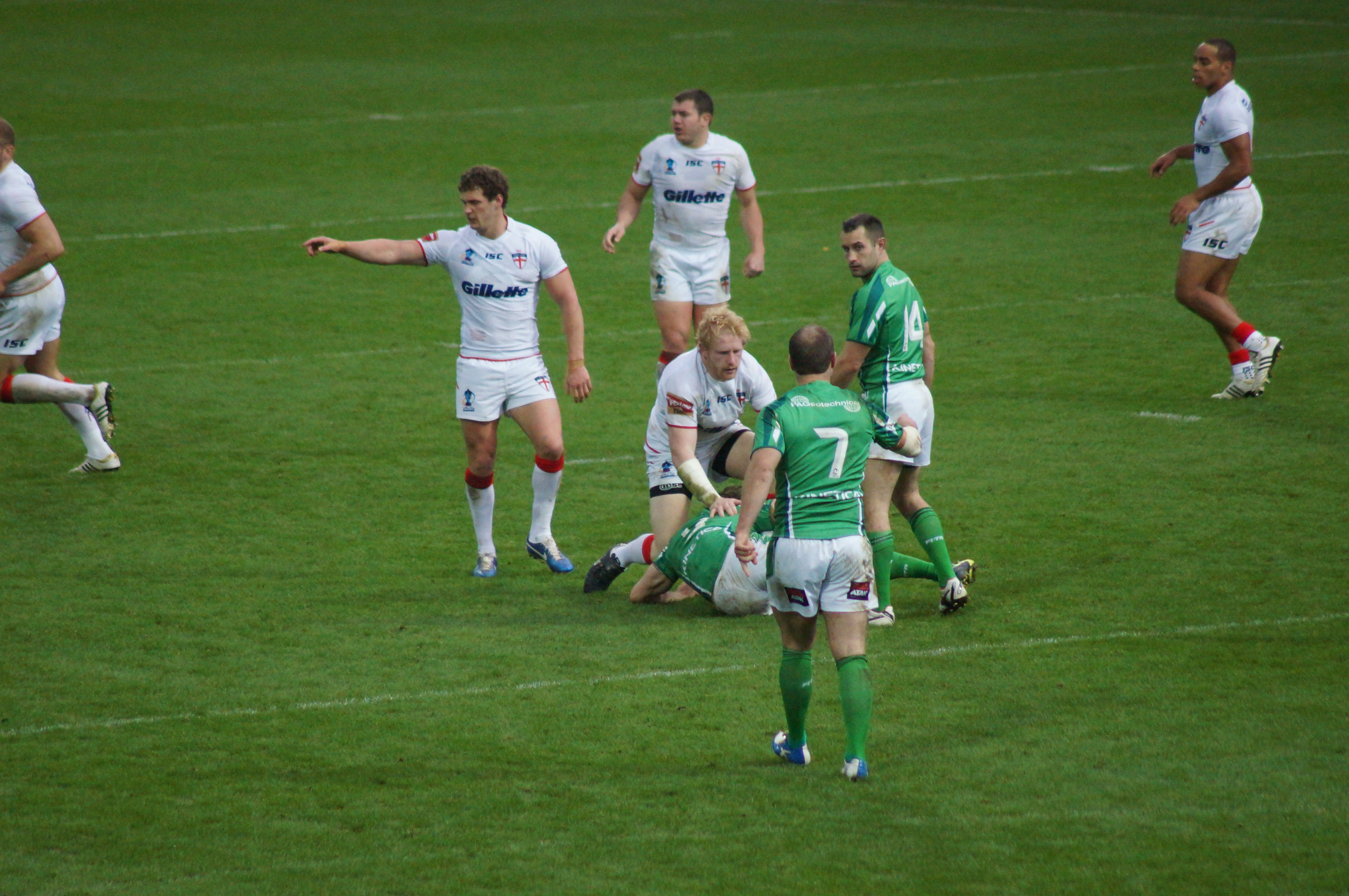 2013 Rugby League World Cup match between England and Ireland at John Smith's Stadium, Huddersfield.